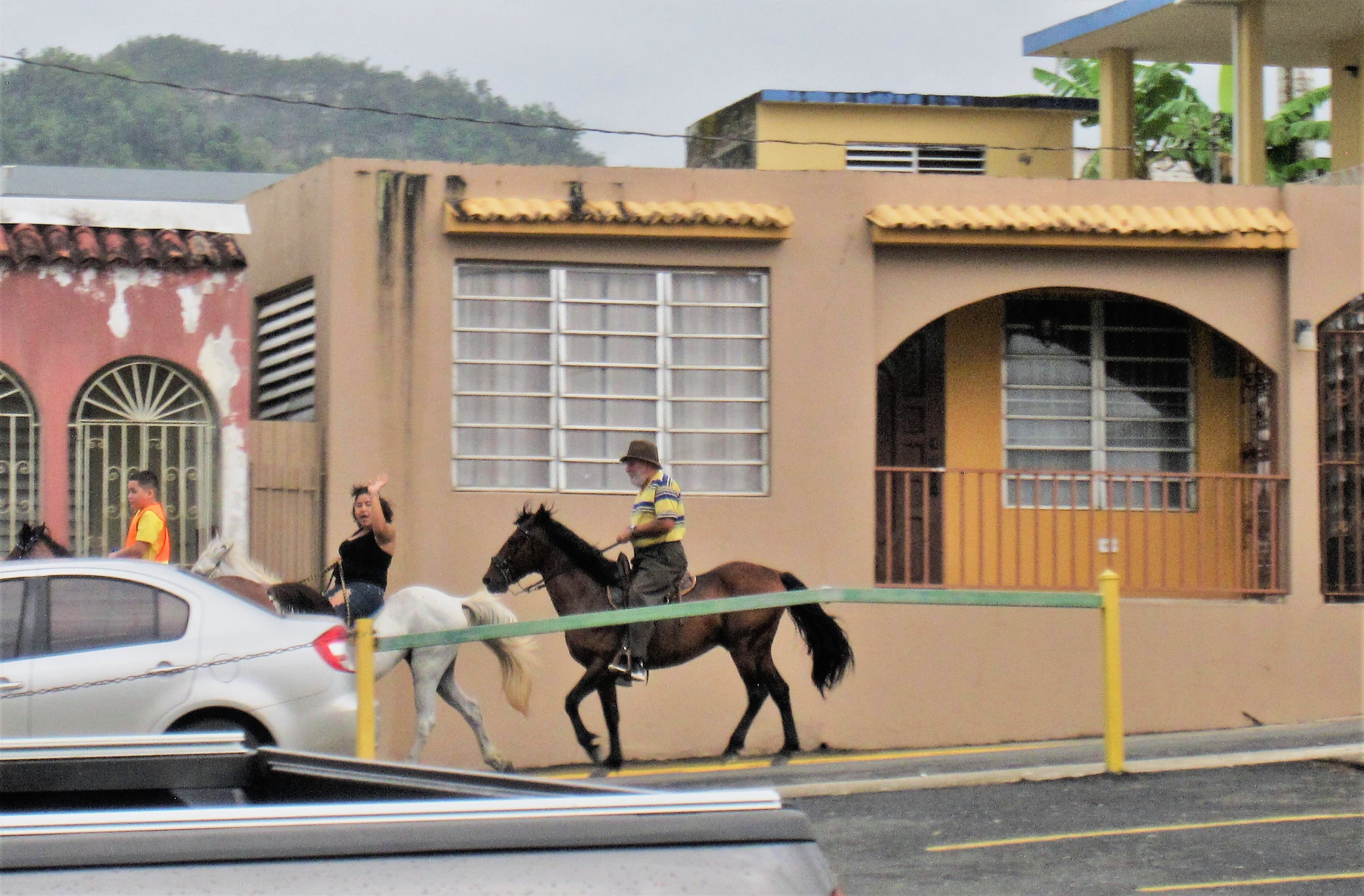 Horse-back riding on a Saturday afternoon in Ciales barrio-pueblo, Puerto Rico